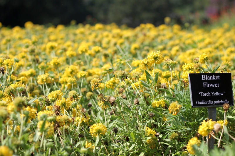 Blanket Flower 'Torch Yellow' (Gaillardia pulchella) captured at the Dallas Arboretum and Botanical Garden in Dallas, Texas.